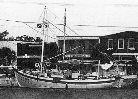 GEORGE N. CRETEKOS (Sponge Diving Boat)